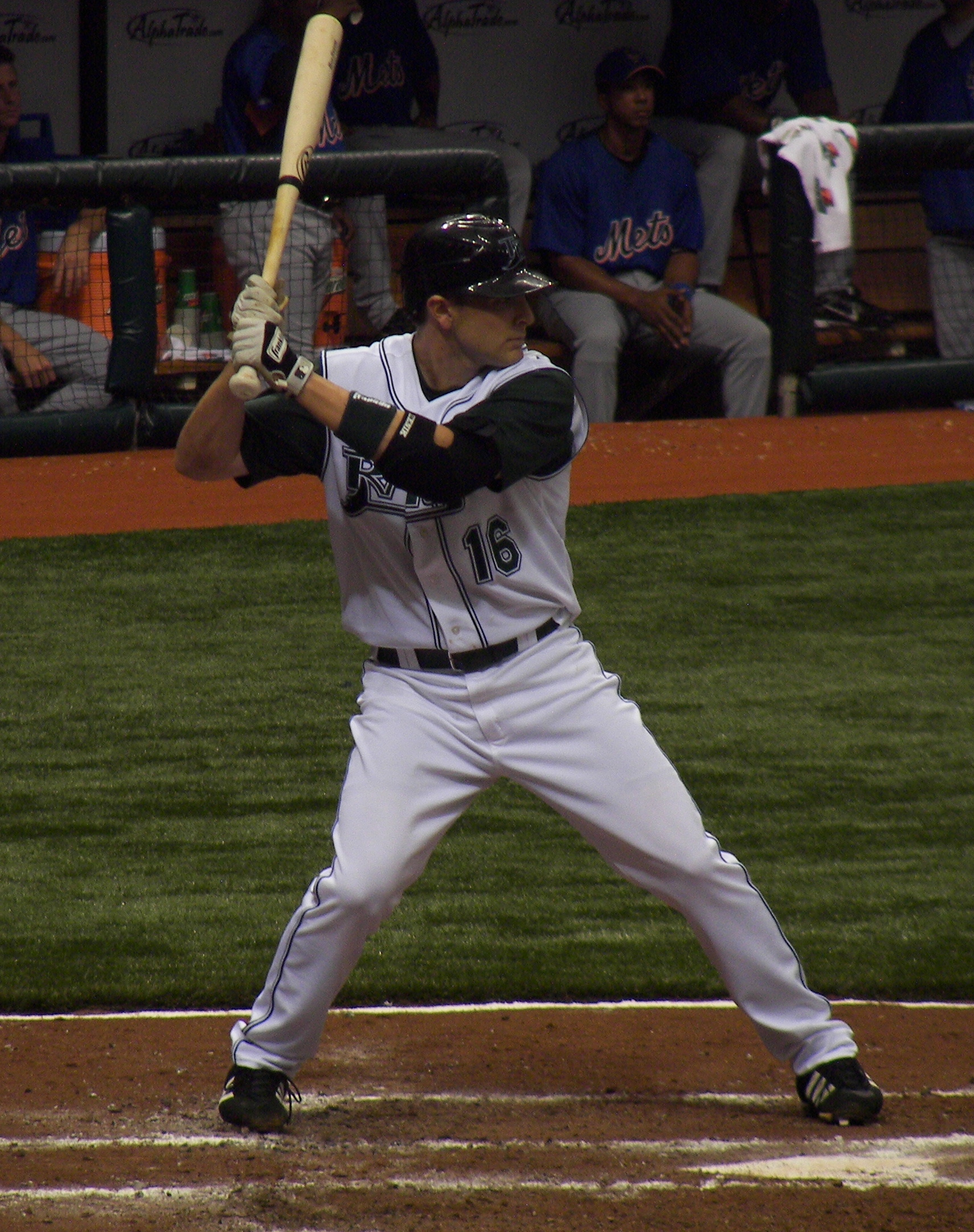 Tampa Bay Devil Rays second baseman Brendan Harris during a Devil Rays/Mets spring training game at Tropicana Field in St. Petersburg, Florida.